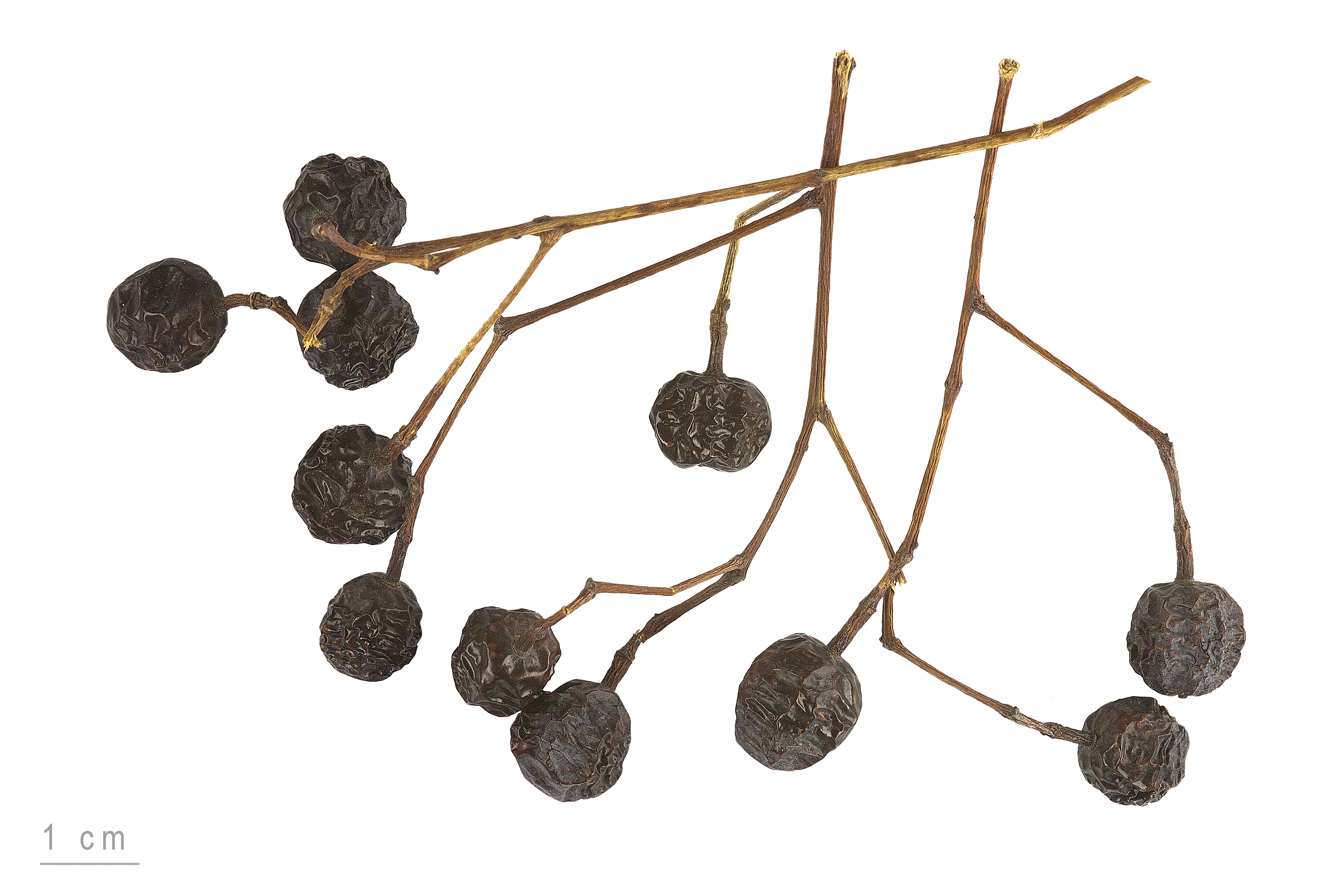 white cedar, , fruits and seeds